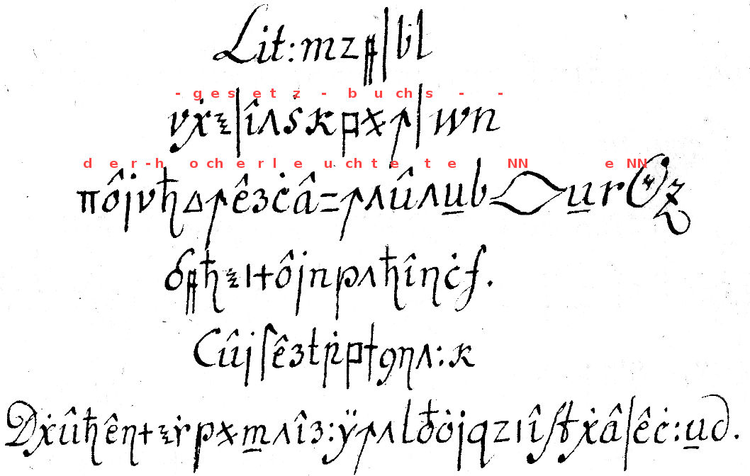 Copiale Cipher; introduction page